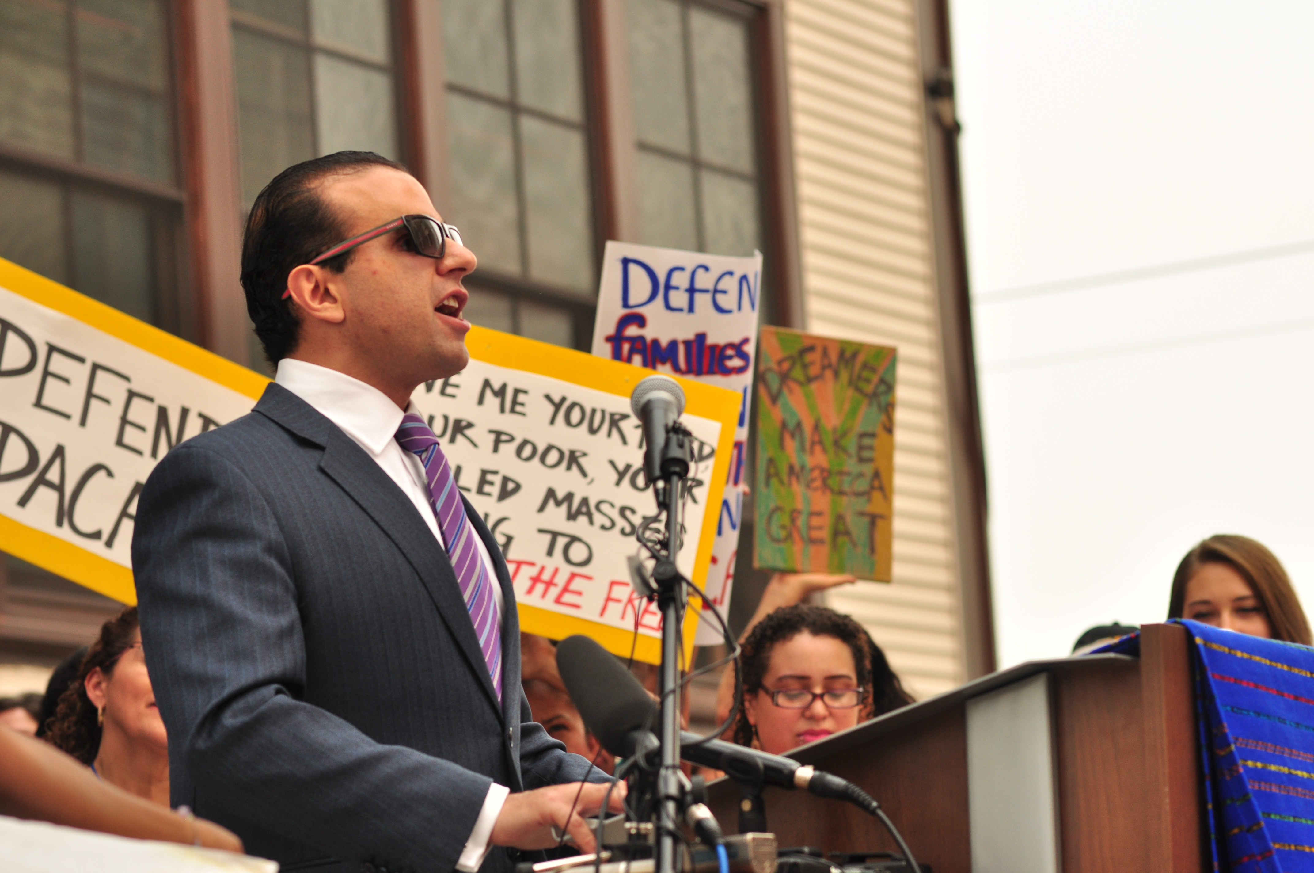 Washington State Lieutenant Governor Cyrus Habib, Defend DACA rally, Plaza Roberto Maestas (outside El Centro de la Raza), Beacon Hill, Seattle, Washington, U.S., September 5, 2017.